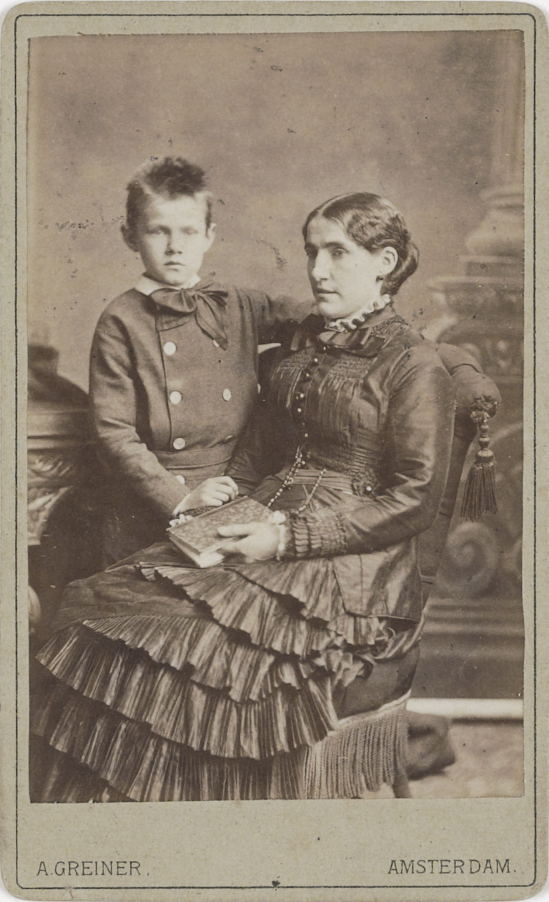 A photo of Kee Vos Stricker with her son taken around 1879/1880 by Albert Greiner, place unknown (b 4888 - 0001 V/1962 (foto), Brieven en Documenten, Van Gogh Museum, released into the Public Domain at the Geheugen van Nederland archive). Kee Vos was the young widow that Vincent van Gogh became infatuated with, an infatuation which ultimately led to his estrangement from his family.